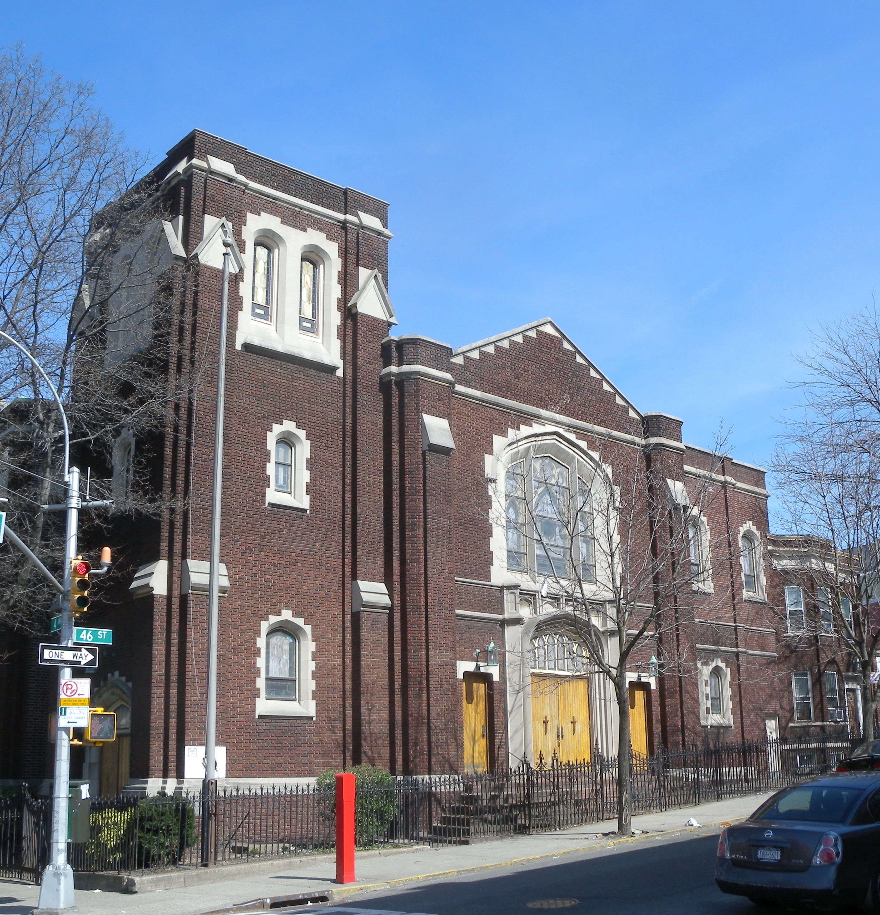 Looking east from 4th Avenue at Trinity Lutheran Church, a New York Landmarks Conservancy Sacred Sites Program restoration project, on a sunny afternoon.